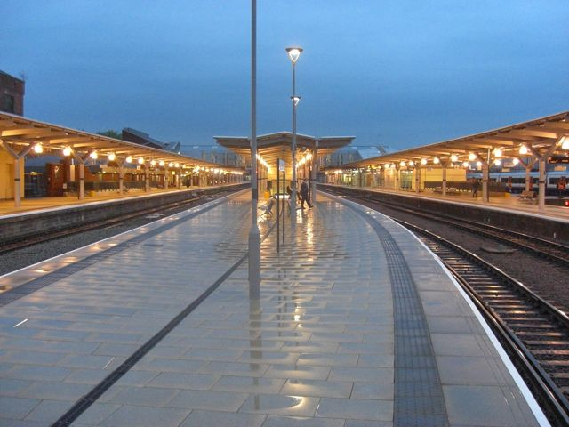 Evening view of the recently completed renovation of the canopies on Derby Midland Railway Station.